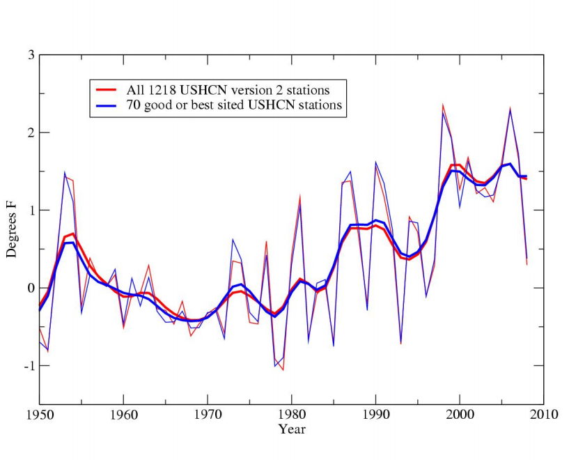 This graph shows the increase in temperature in the U.S. according to the 1218 stations in NOAA’s Historical Climatology Network (USHCN), with yearly data going from 1950 to 2009. It incorporates information from the article-- Watts, Anthony, 2009: "Is the U.S. Surface Temperature Record Reliable?" The Heartland Institute, Chicago. 29 pp.